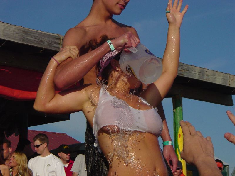 pouring water for wet-tshirt, Panama City Beach, Florida, 23 March, 2004